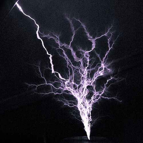 Electrical arcs from a singing tesla coil